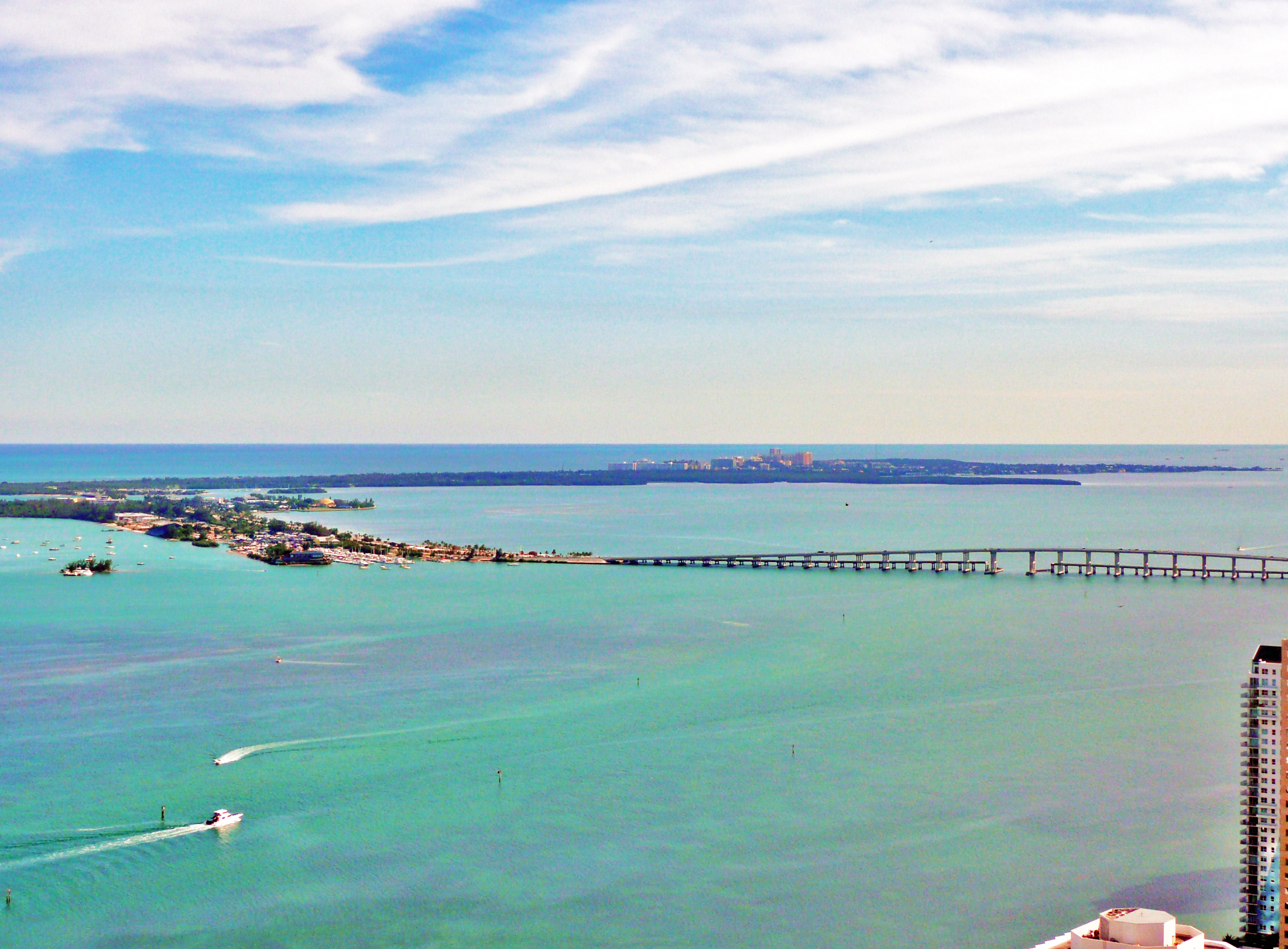 Digital photo taken by Marc Averette. Good portion of the Rickenbacker Causeway near Downtown Miami, Florida, United States.